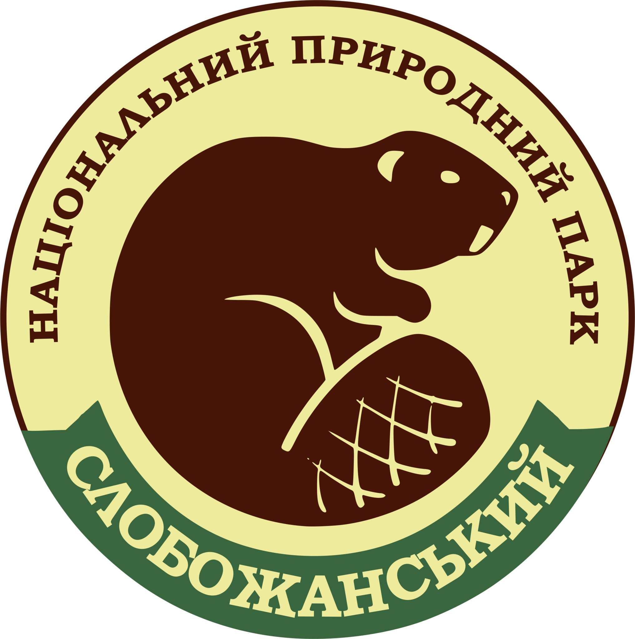 National Park Slobozhanskyi